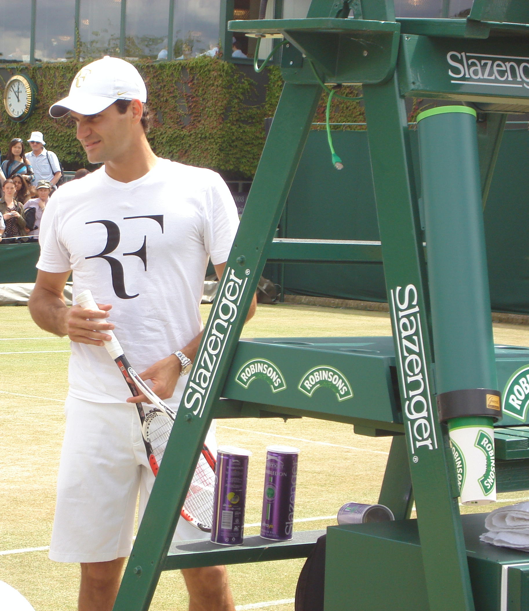 Roger Federer practising on court 14 before the Wimbledon 2009 Final in which he beat Andy Roddick in 5 sets.